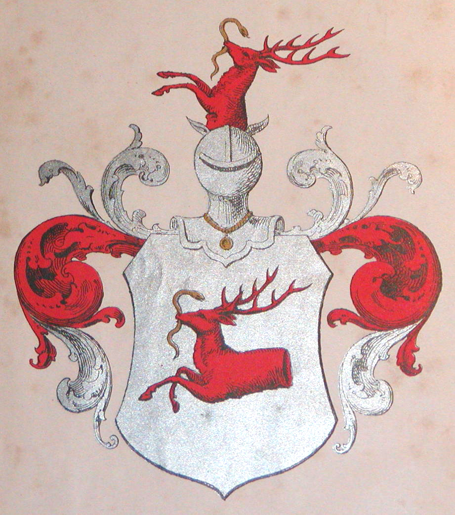 Coat of arms as used by the owners of the Hajstrupgaard farm in Bylderup-Bov (Denmark) in the 15th–16th centuries.